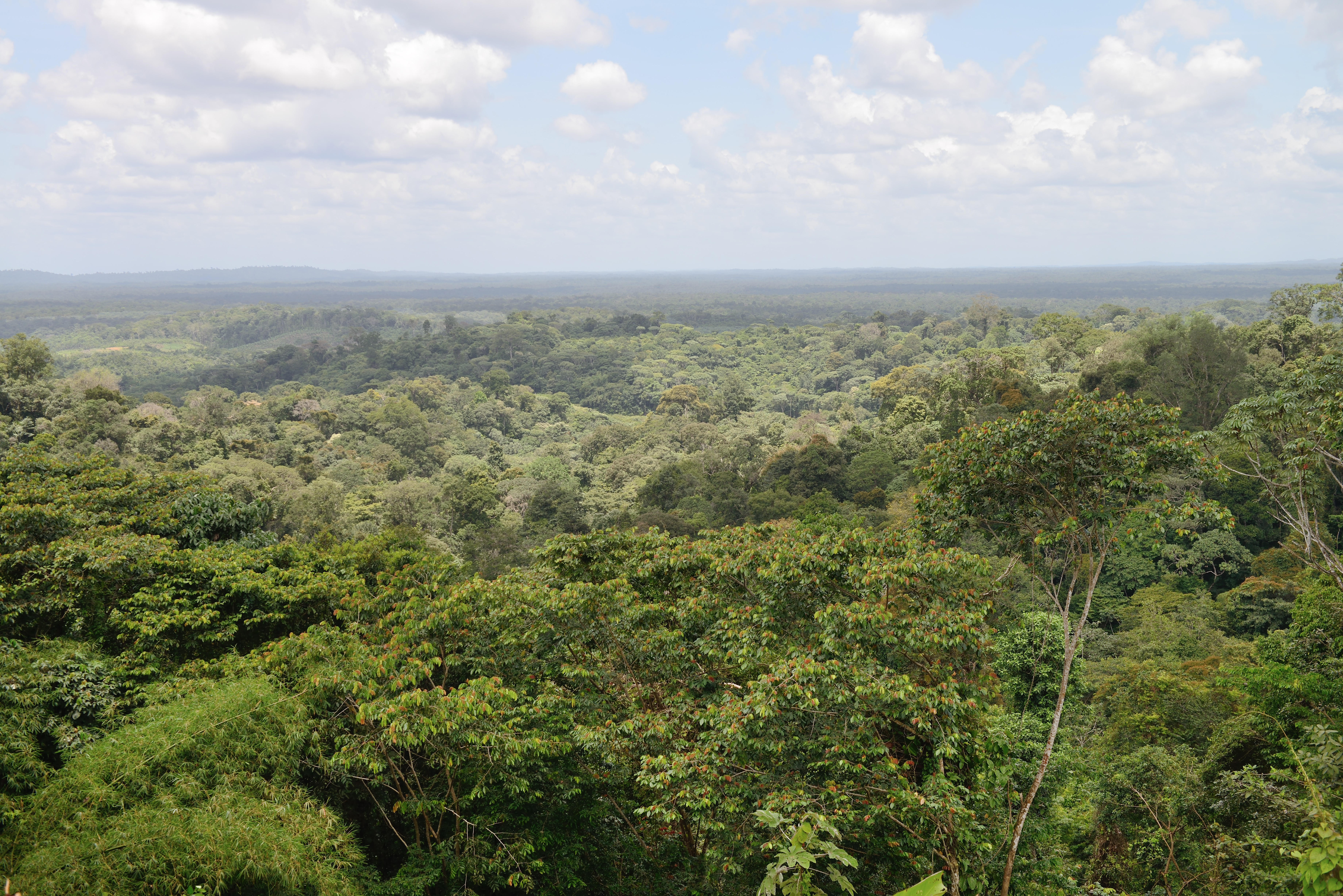 French Guiana: tropical forest towards Cacao. Panorama at Bellevue.